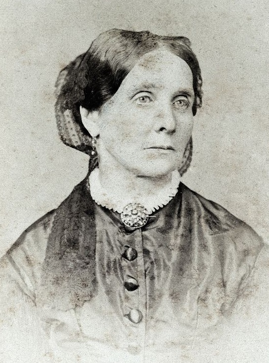 Auguste von der Decken born von Hodenberg (1818-1879)